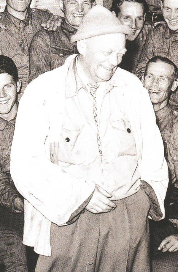 Aku Korhonen finnish actres